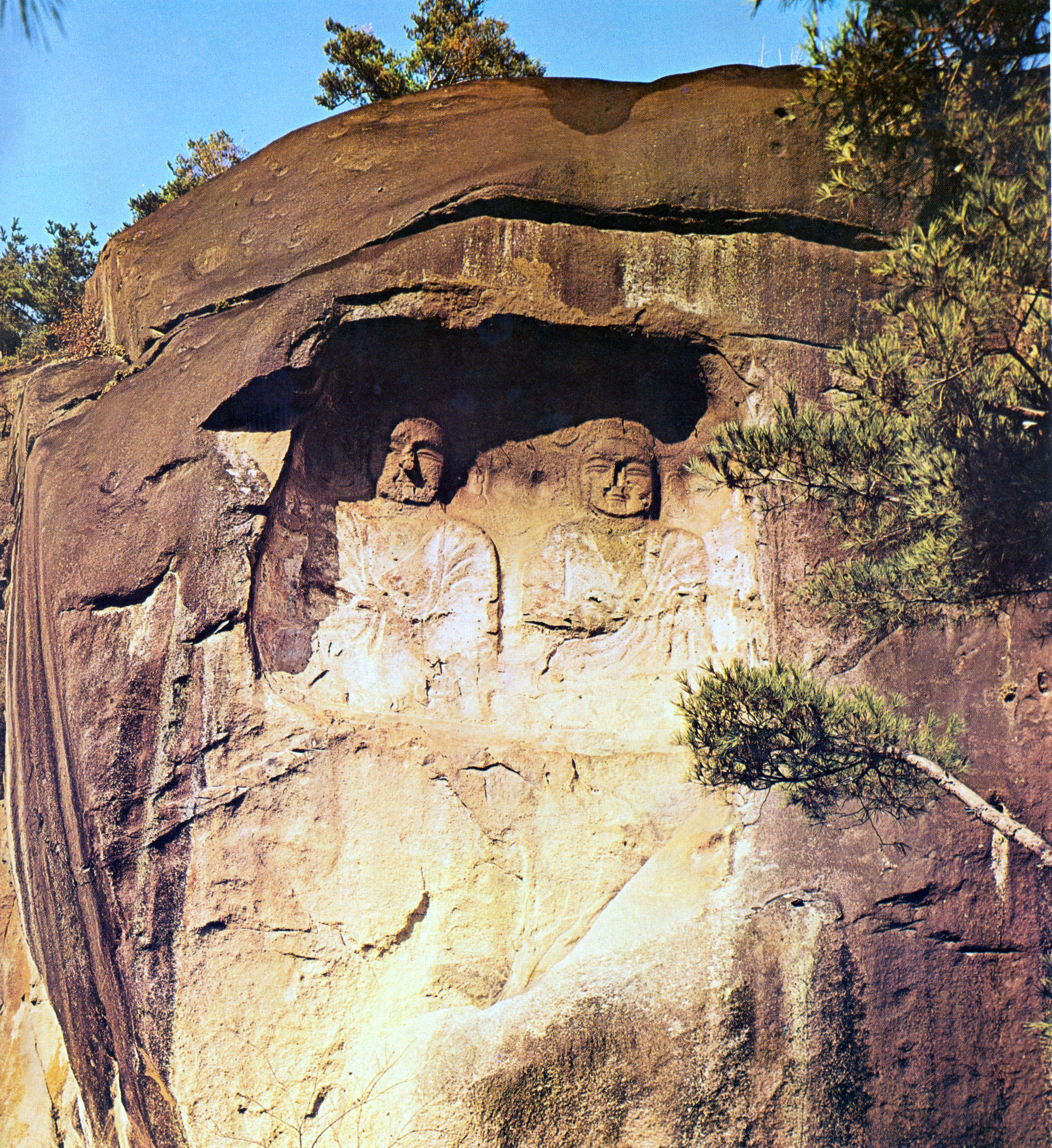 Seated Rock-carved Buddha statues at Wonpung-ri in Goesan, Korea